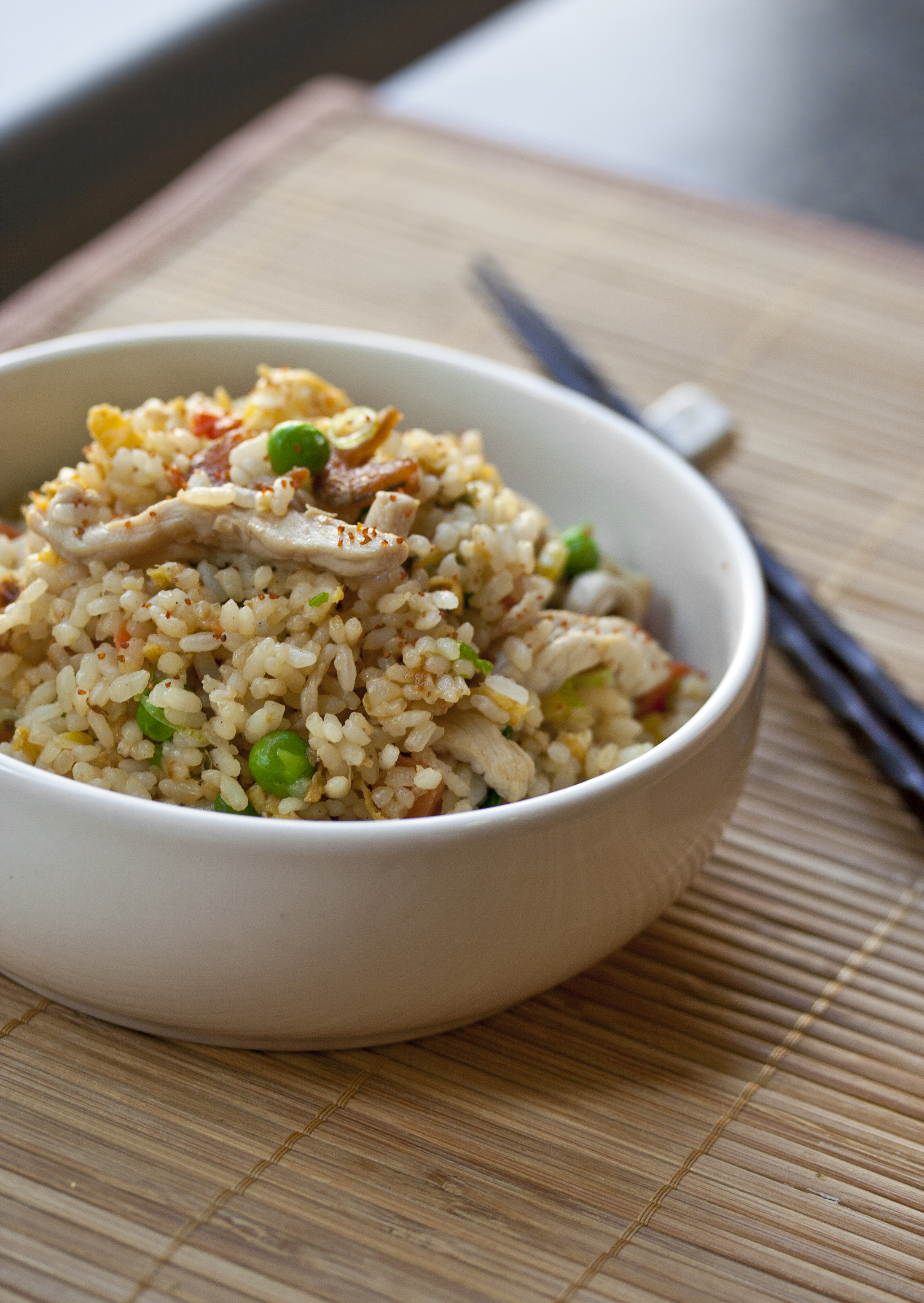 Chinese Fried Rice